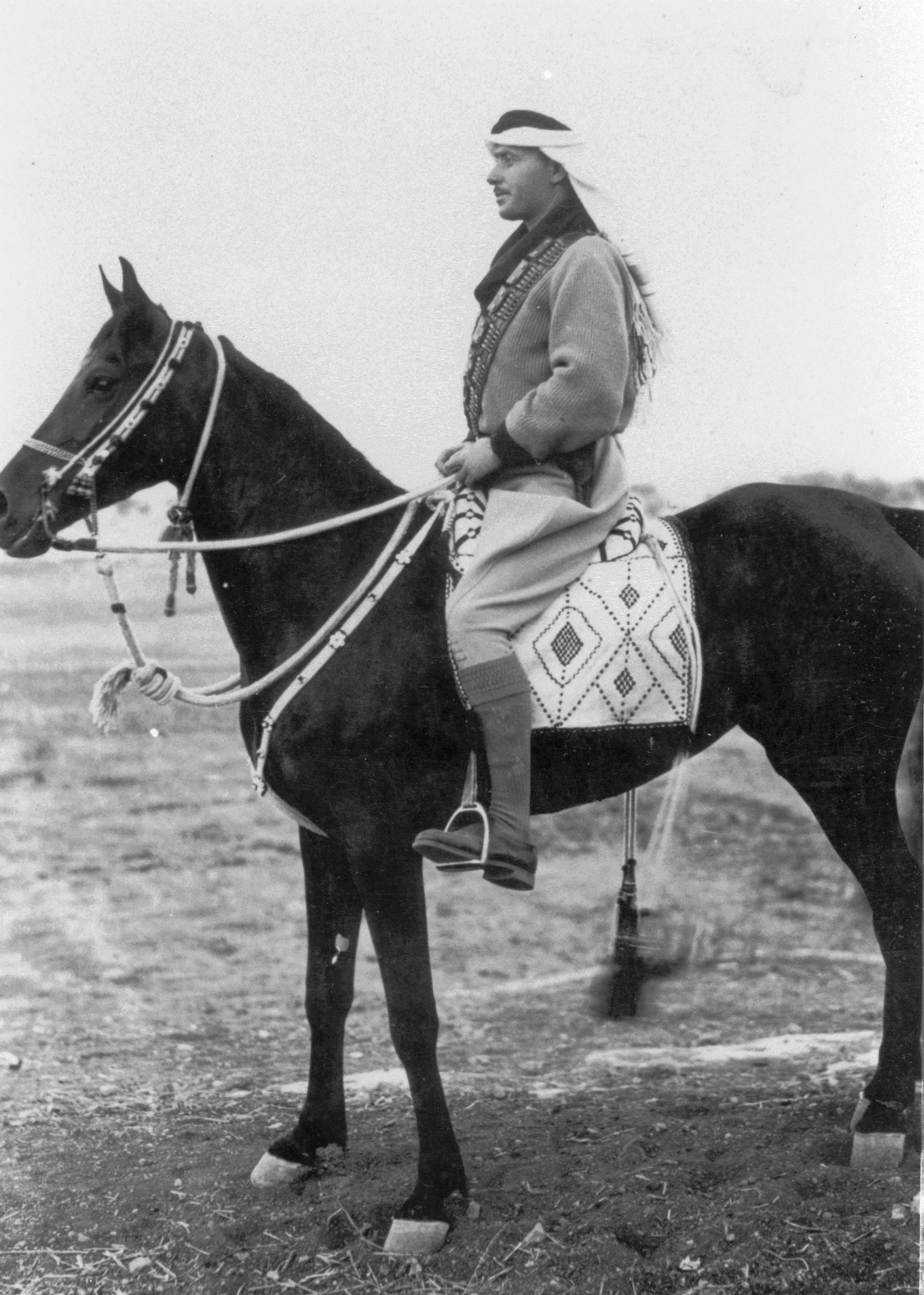 The Palmach, People of Israel